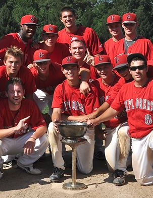 The Explorers of the LCBL celebrating with the Corps of Discovery Cup